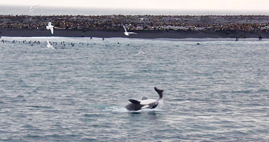 An orca feeding on a northern fur seal off of Bogoslof Island, Alaska